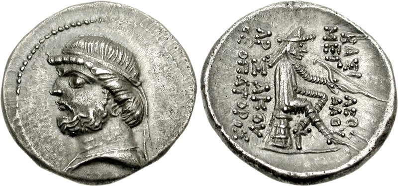 Coin of Phraates II.